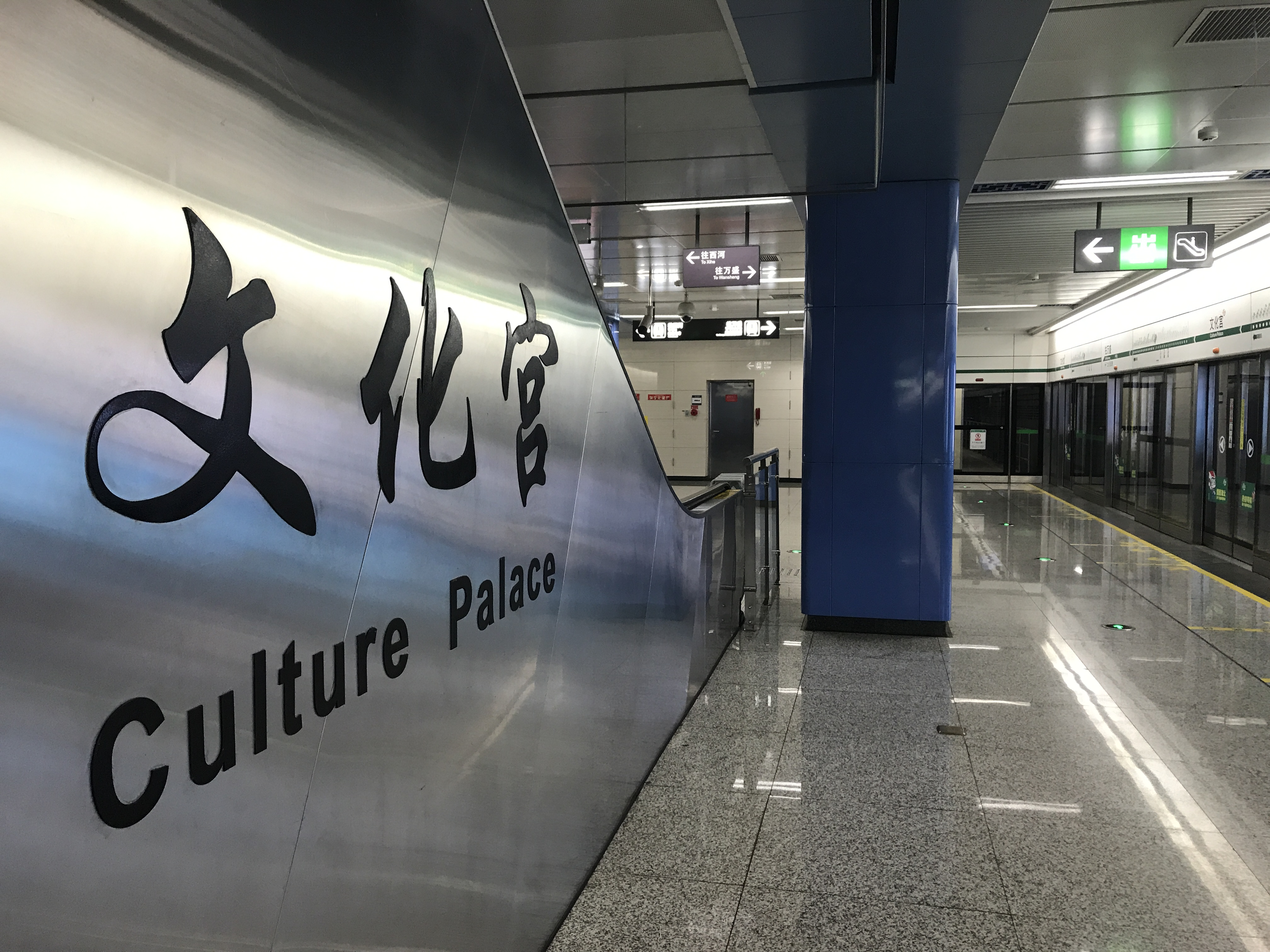 Platform of Cultural Palace Station, Chengdu Metro